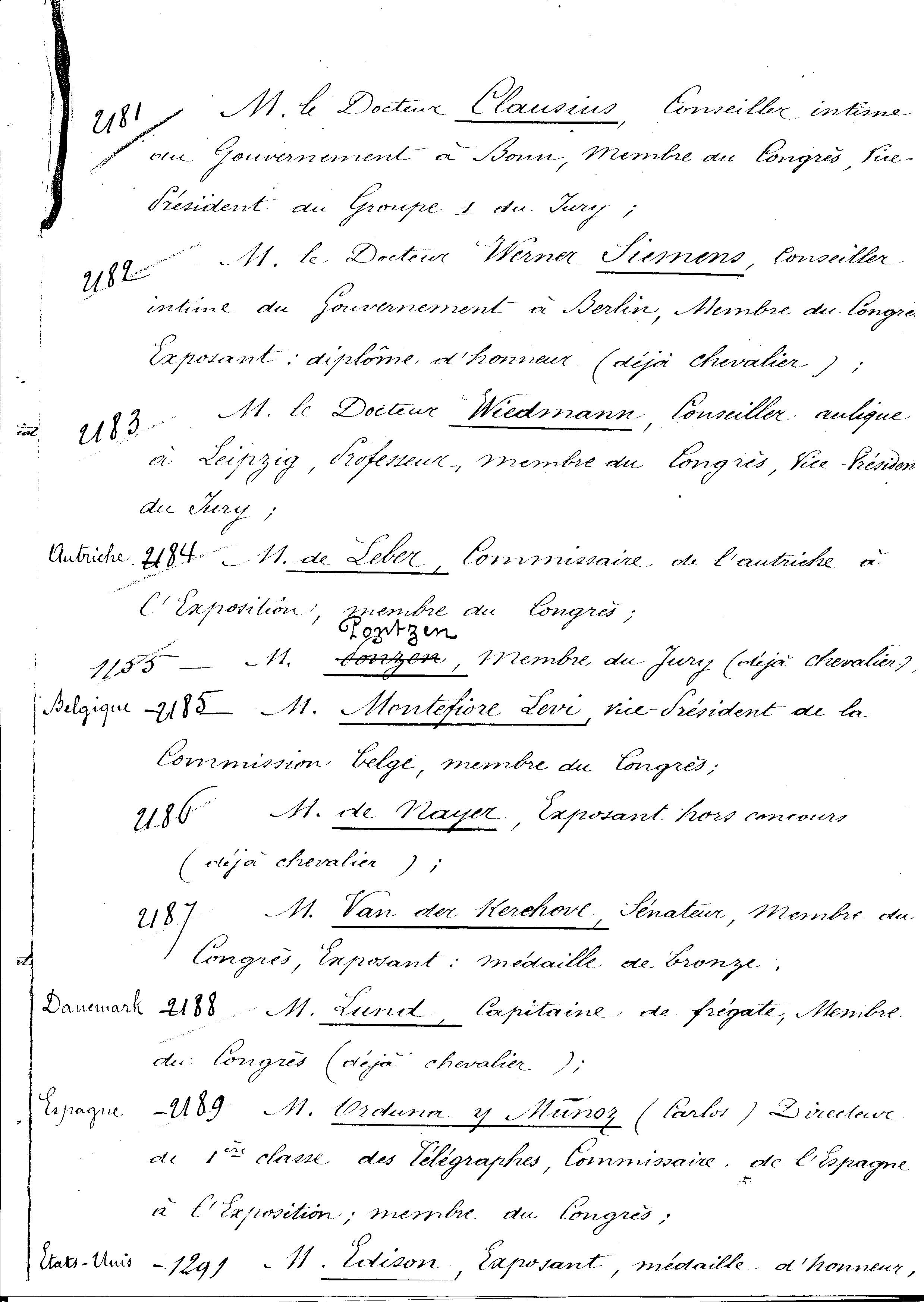 Presidential decree by Jules Grévy, on the recommendation of his Minister of Foreign Affairs Jules Barthélemy-Saint-Hilaire, granting various levels of the Légion d'Honneur to approximately 35 people for their services rendered at the International Exposition and Congress of Electricity, in relation to their discoveries and inventions.